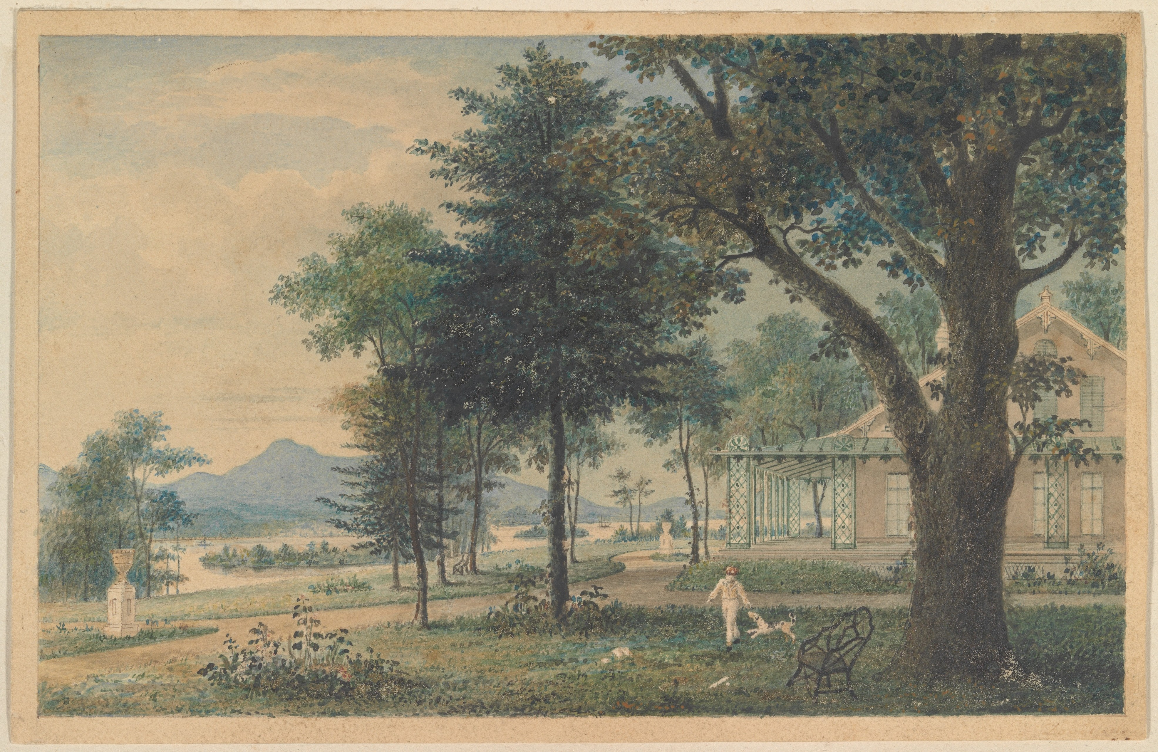 Book ; drawing ; Ornament and Architecture; Books